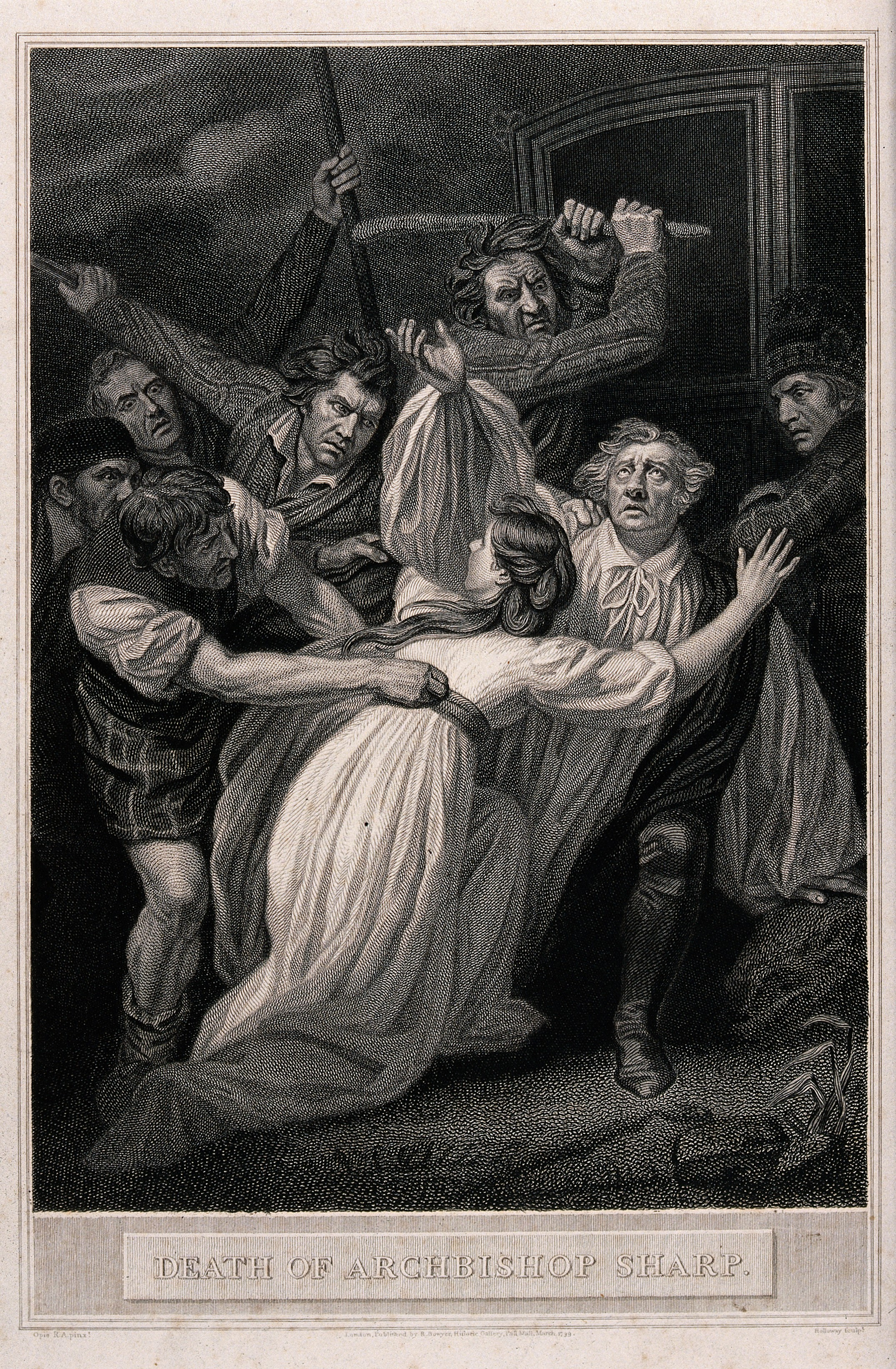 A young woman is restrained from helping Archbishop Sharp as highwaymen drag him out of his carriage. Line engraving by T. Holloway after J. Opie. Iconographic Collections Keywords: Thomas Holloway; John Opie